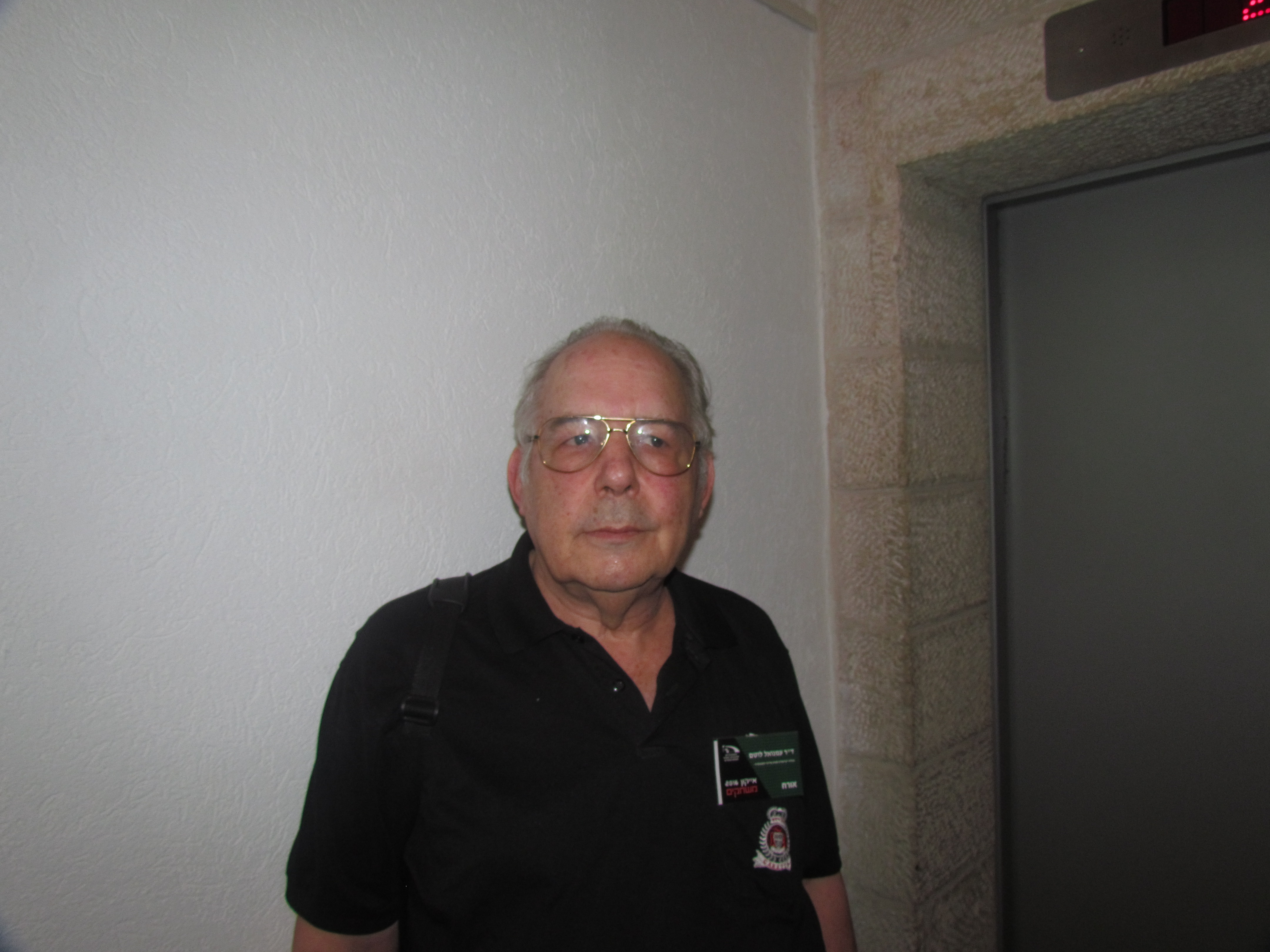 Dr. Emanuel Lotem (עמנואל לוטם), famous Israeli translator and one of the founders of the israeli Society for Science Fiction and Fantasy. Taken at the Iocn Festival, Tel-aviv, Israel, on October 19th, 2016